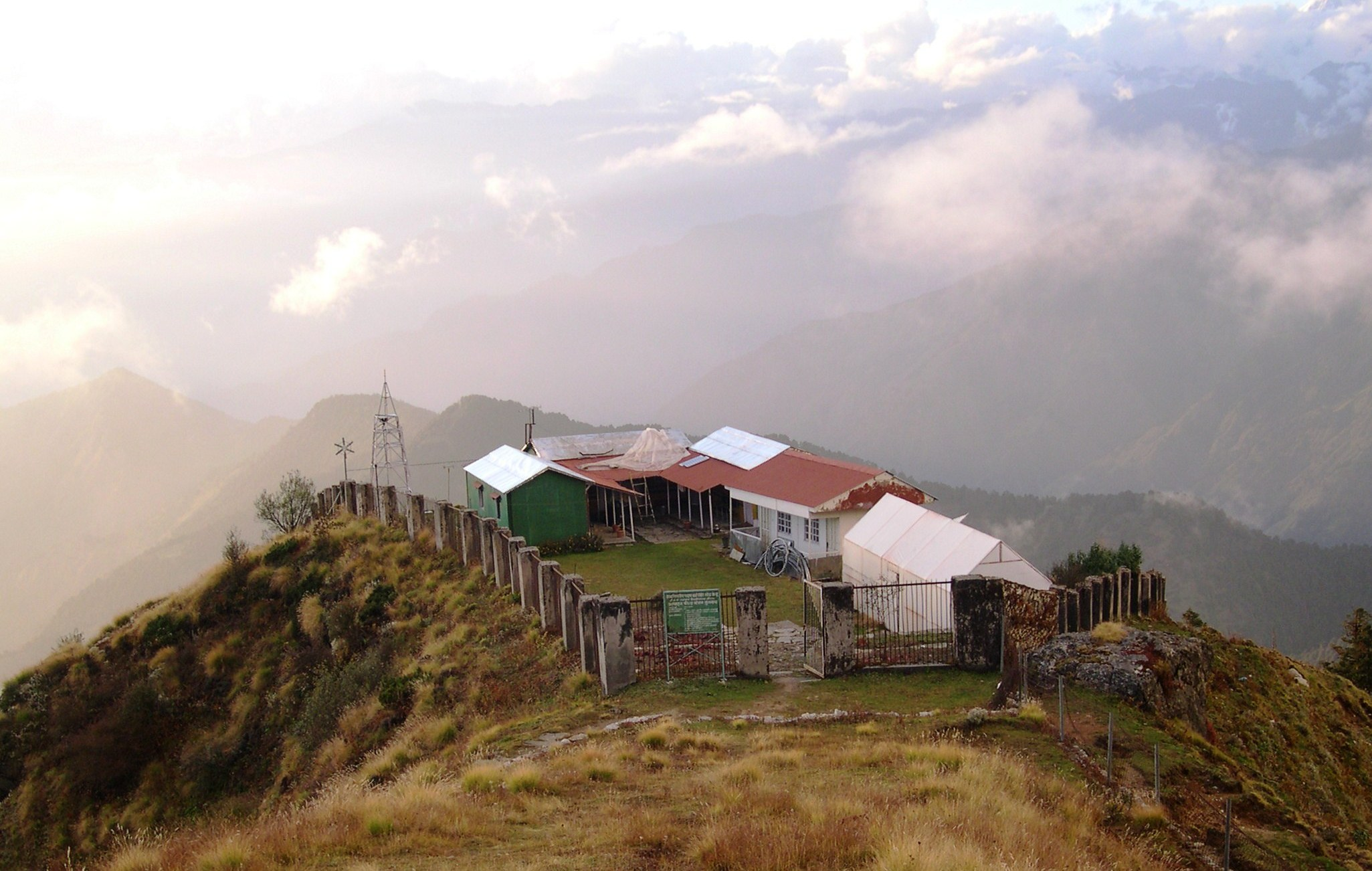 The Alpine Field Station at Tungnath at 1300 ft was established by Prof. A.N. Purohit